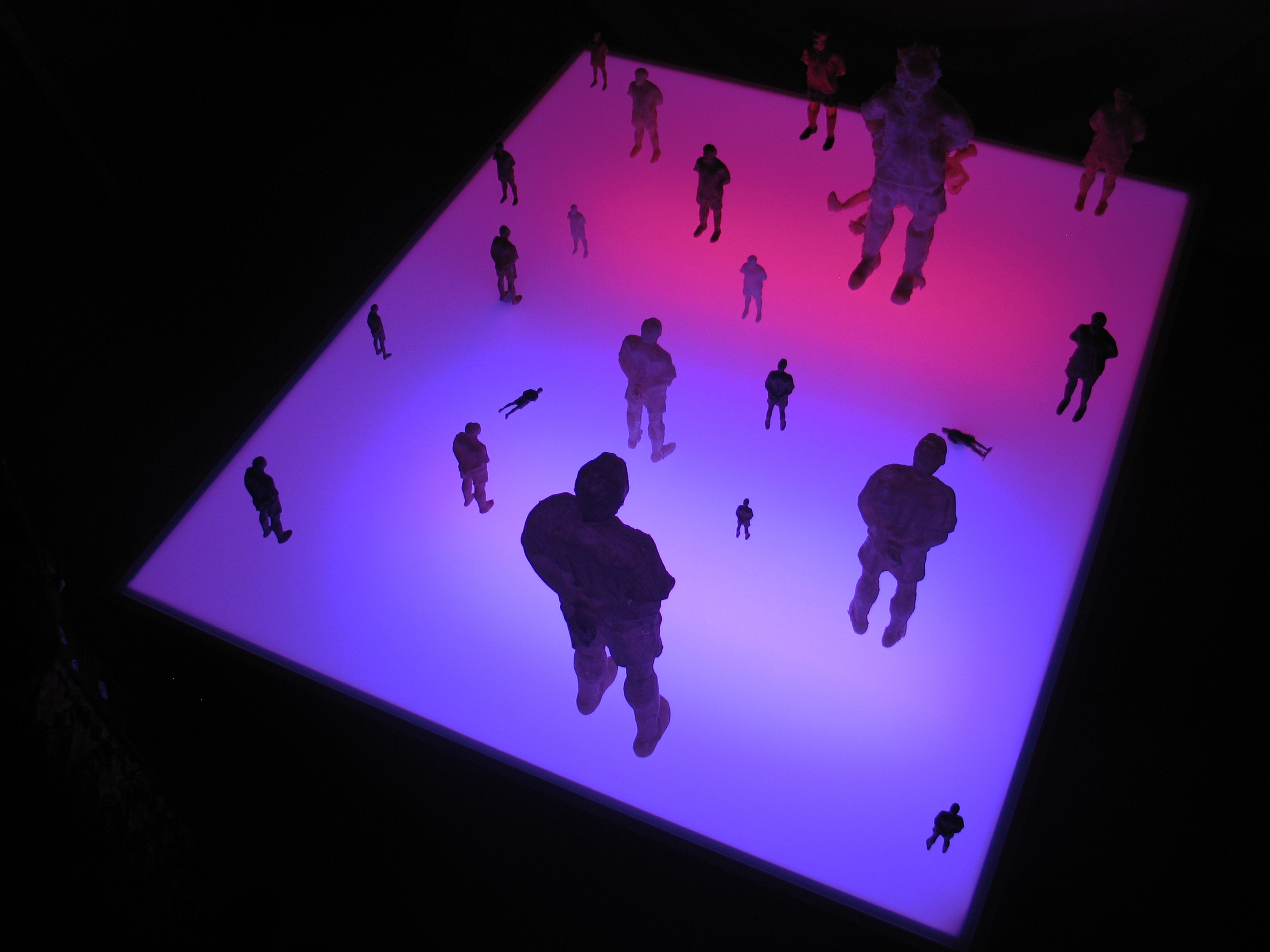 Installation object from the artist Harro Schmidt ...